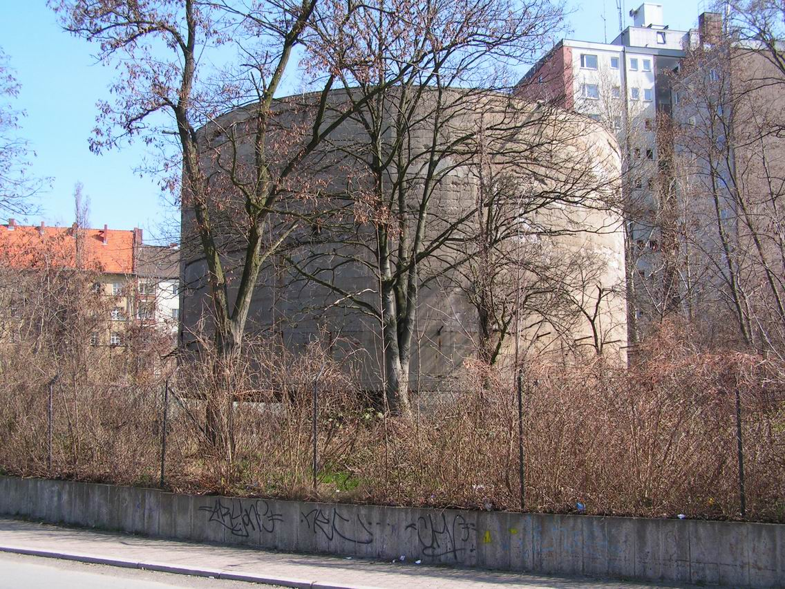 the Schwerbelastungskörper (heavy weight compound) in Berlin near Dudenstraße (General-Pape-Straße/Loewenhardtdamm)